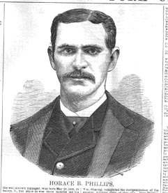 Drawing of Horace B. Phillips, manager, 1884